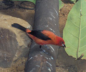 Species Ramphocelus bresilius Family Thraupidae